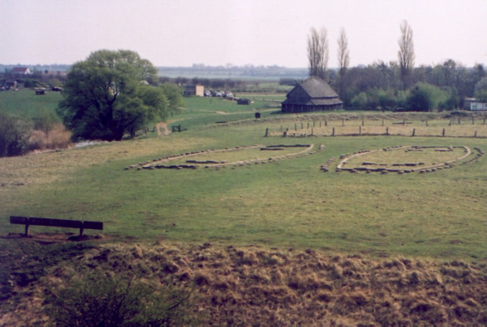 Trelleborg near Slagelse, Denmark